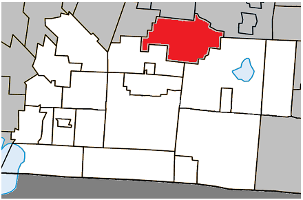 Location of Bromont, Quebec within Brome-Mississquoi Regional County Municipality.